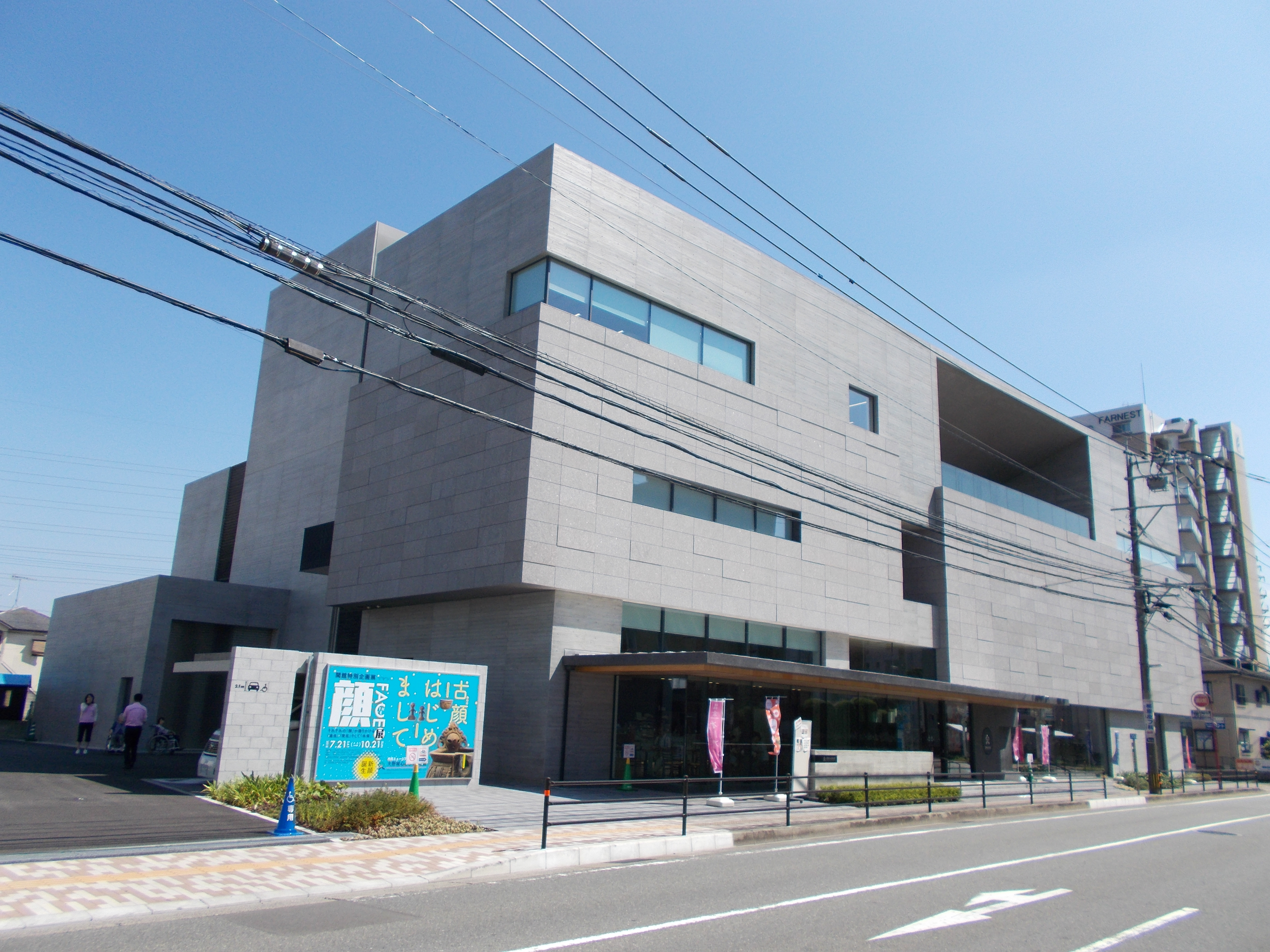 Onojo Cocoro-no-furusato-kan City Museum (OCCM), Fukuoka, Japan. The museum was open in July 21, 2018.